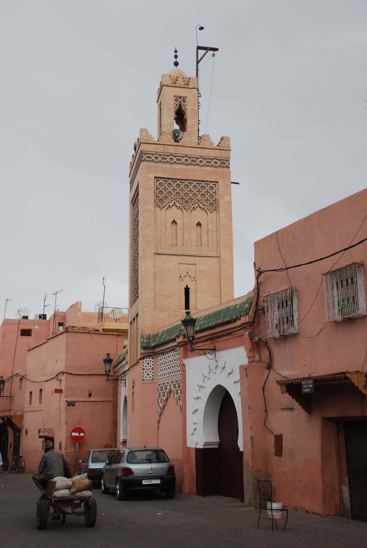 Marrakech, Mosque of Ben Nasseur, near al-Jazuli's mausoleum.